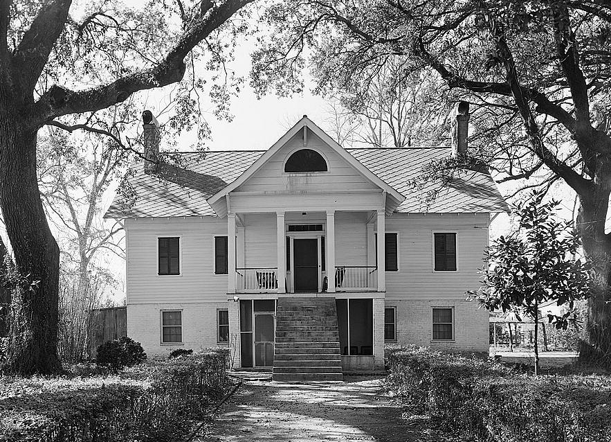 Miller-O'Donnell House, 1102 South Broad Street, Mobile, Mobile County, AL. EAST (FRONT) ELEVATION (This house has been destroyed.)